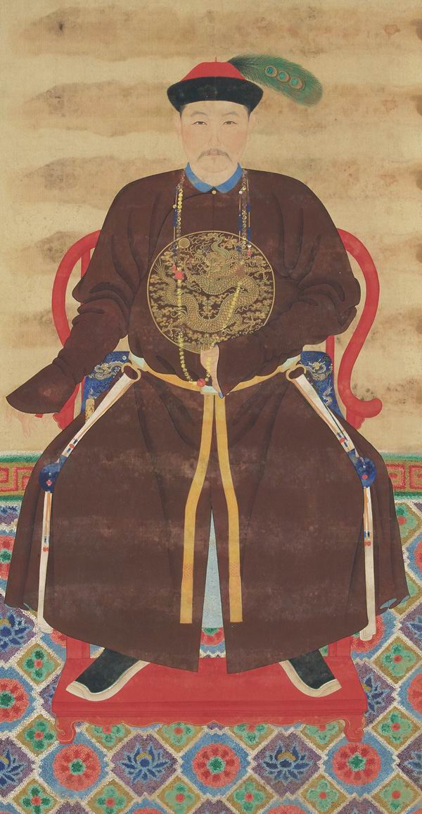 Yinsi, Prince Lian (1681-1726) was the eight son of the Kangxi Emperor and a prince of the Qing Dynasty. Ink and colors on silk, H: 165.2 W: 88.0 cm.